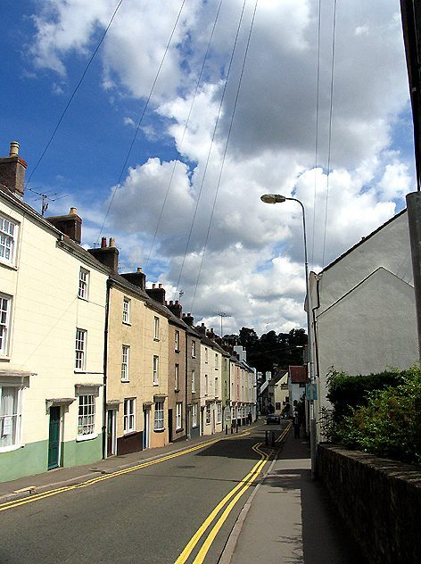 Road into Chepstow and Castle